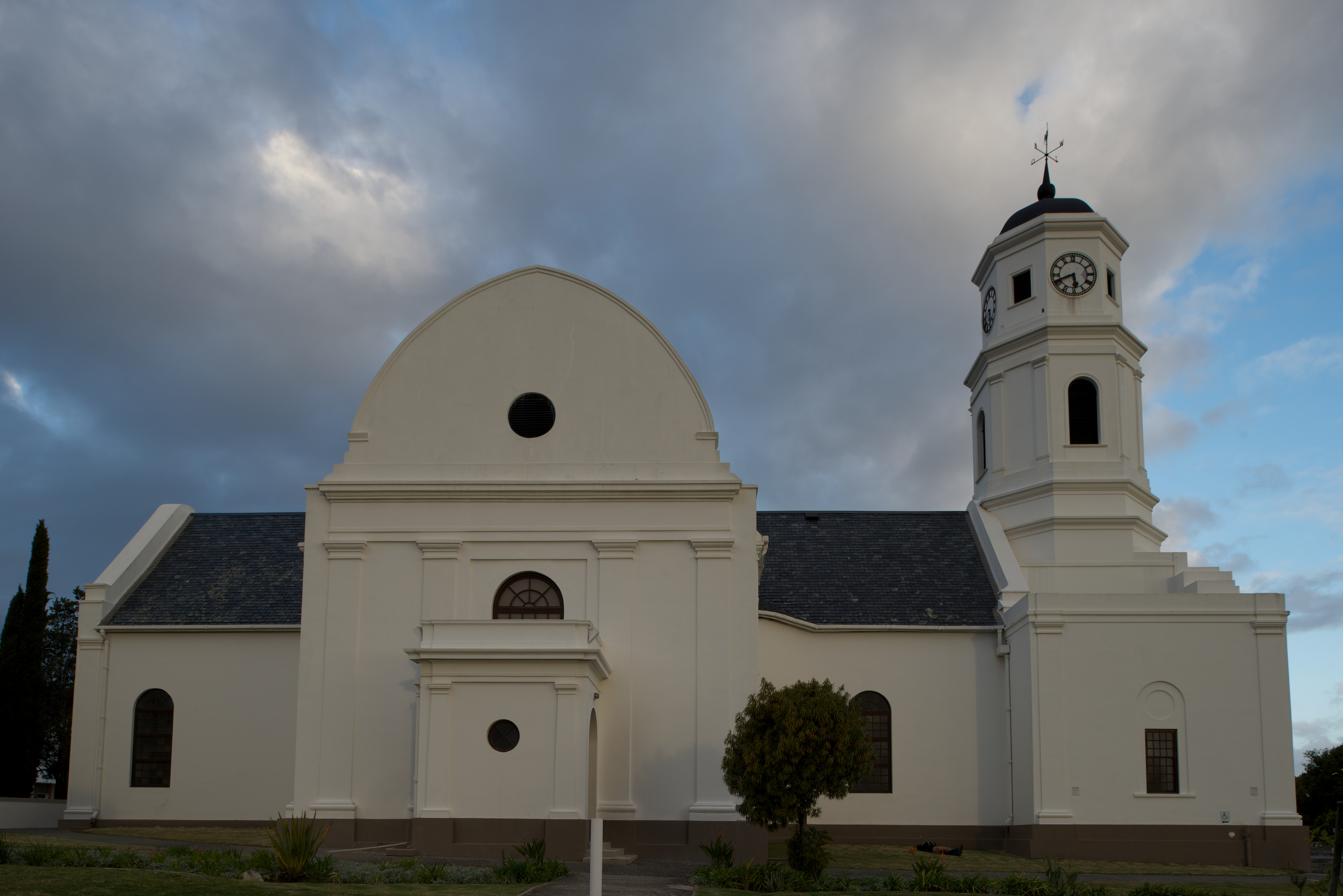 This media shows a South African Protected Site with SAHRA file reference 9/2/030/0016.